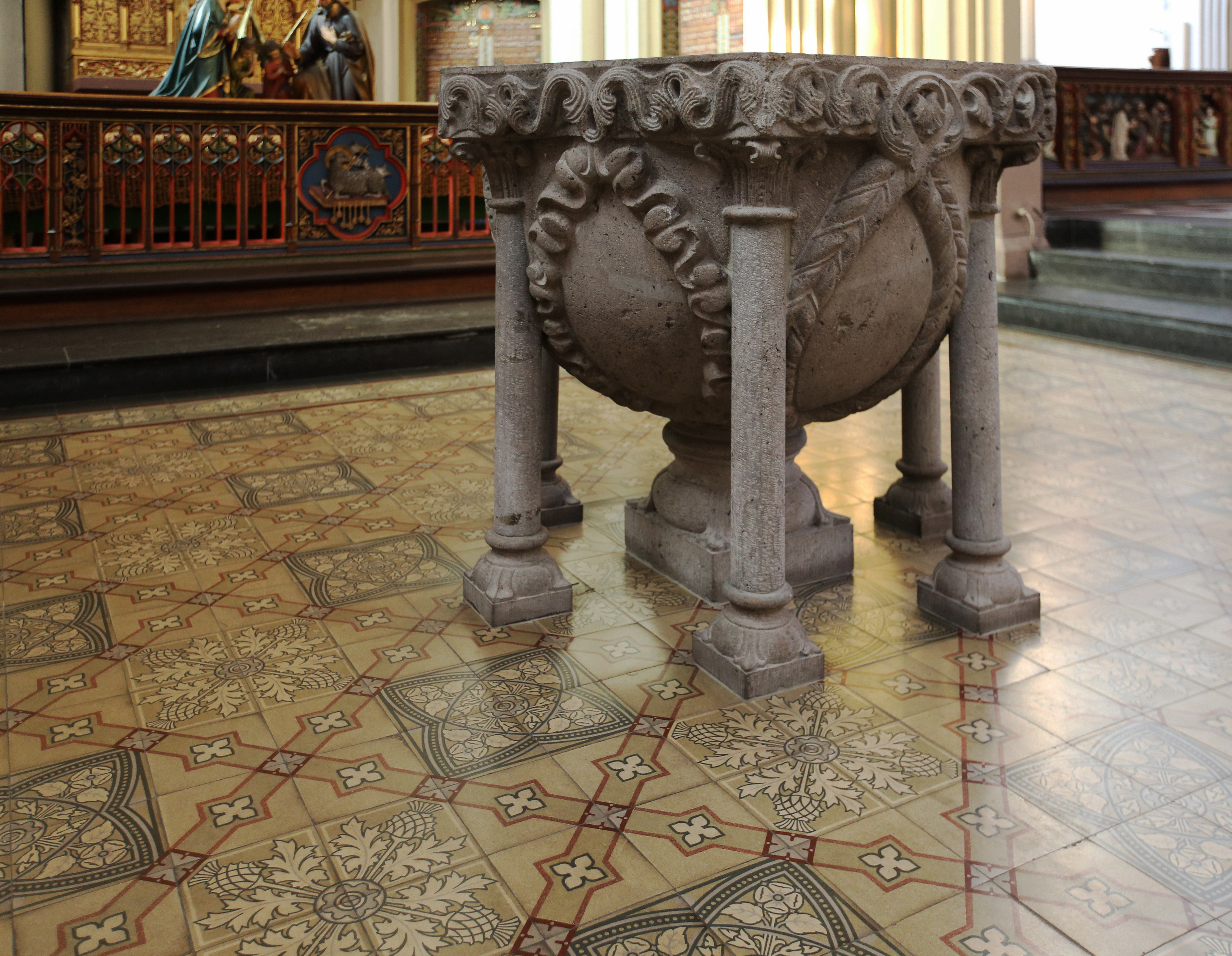 Reconstructed baptismal font (dated in 1290) of the former churches in Dietkirchen/ Bonn, named collegiate church „Saint John the Baptist and Peter“